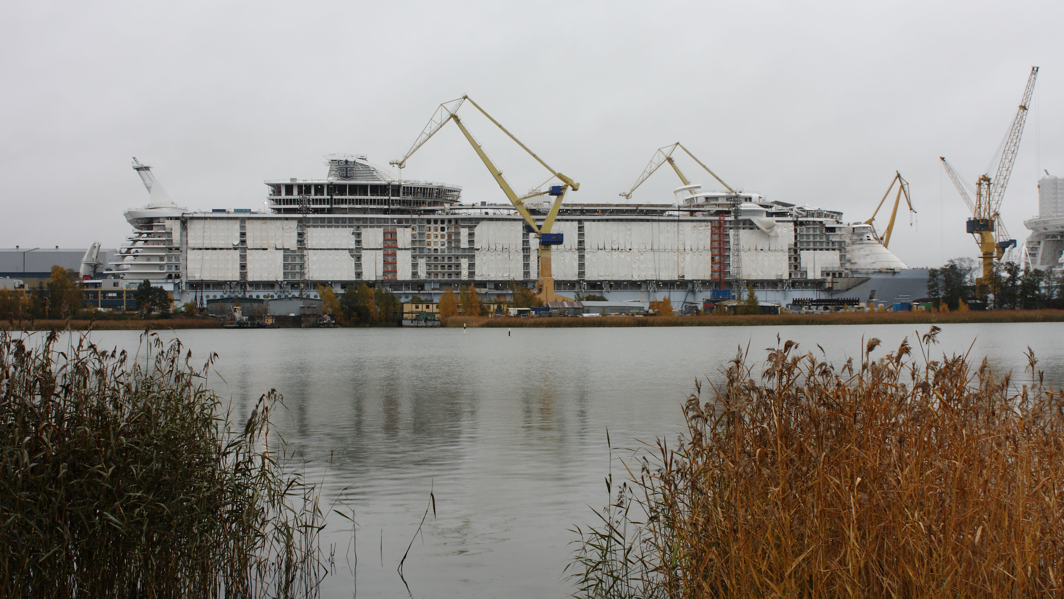 MS Allure of the Seas under construction at STX Europe shipyard Turku, Finland. The stern of the nearly finished MS Oasis of the Seas is visible on the right. Also in the foreground grow much Phragmites (Common reed) (Phragmites australis).